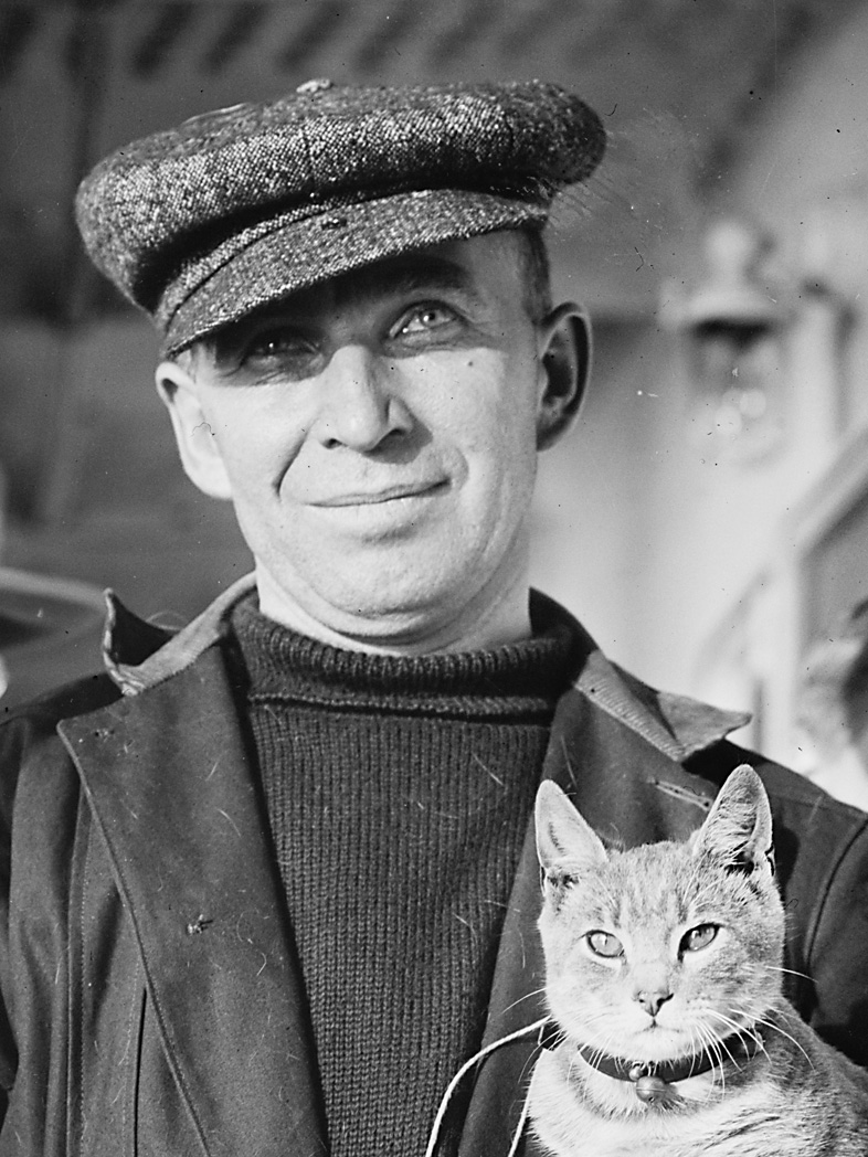 "M. Vaniman and cat." Melvin Vaniman, the first engineer of the hydrogen airship America, with the tabby cat mascot, "Kiddo," after boarding the steamship Trent in October 1910. 5x7 glass negative, George Grantham Bain Collection. Digital ID: ggbain 08627 Source: digital file from original neg. Reproduction Number: LC-DIG-ggbain-08627 (digital file from original neg.) Repository: Library of Congress Prints and Photographs Division Washington, D.C. 20540 USA The George Grantham Bain Collection represents the photographic files of one of America's earliest news picture agencies.